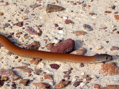 Pygopus lepidopodus, common scalyfoot lizard at Basin Track, Ku-Ring-gai Chase National Park, Australia